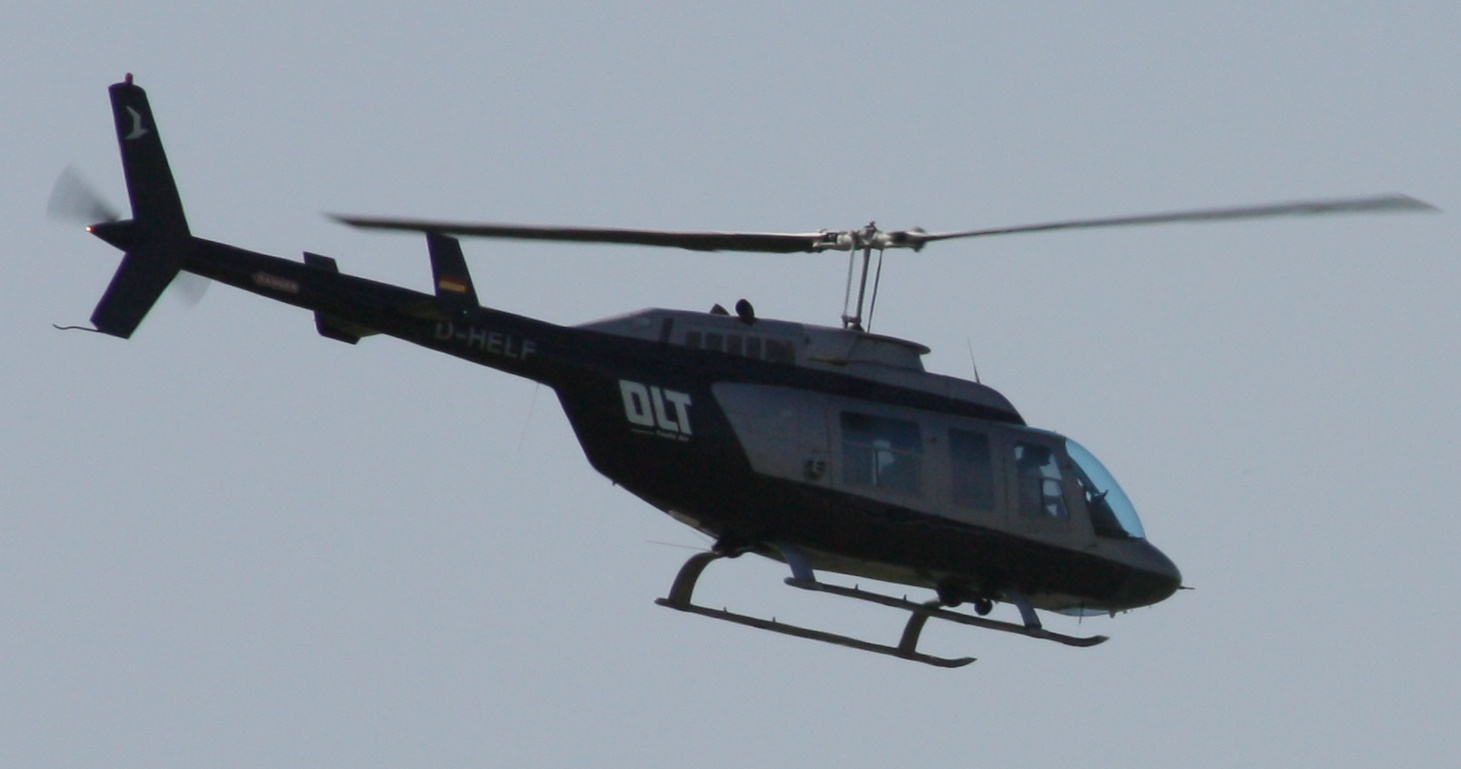 (Reg. D-HELF) Bell 206L LongRanger from Ostfriesische Lufttransport